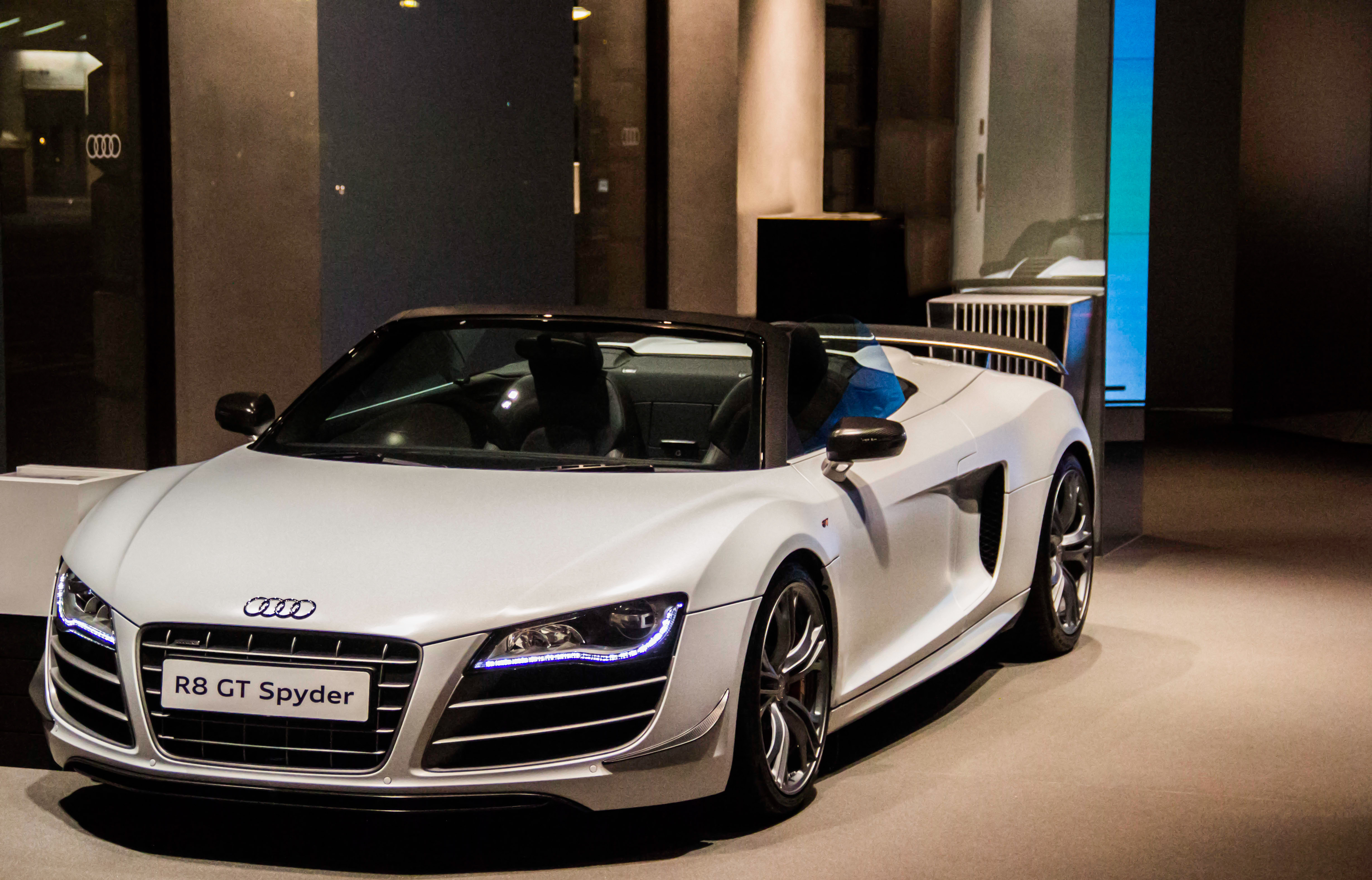 Audi R8 GT Spyder